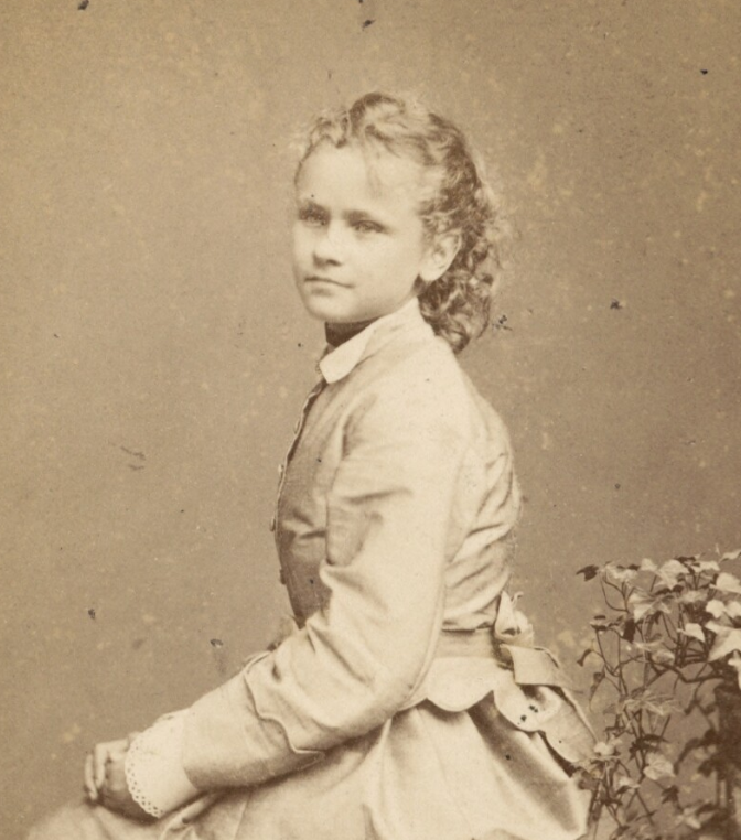 Photograph of the Danish feminist and peace activist Louise Wright (1861-1935)